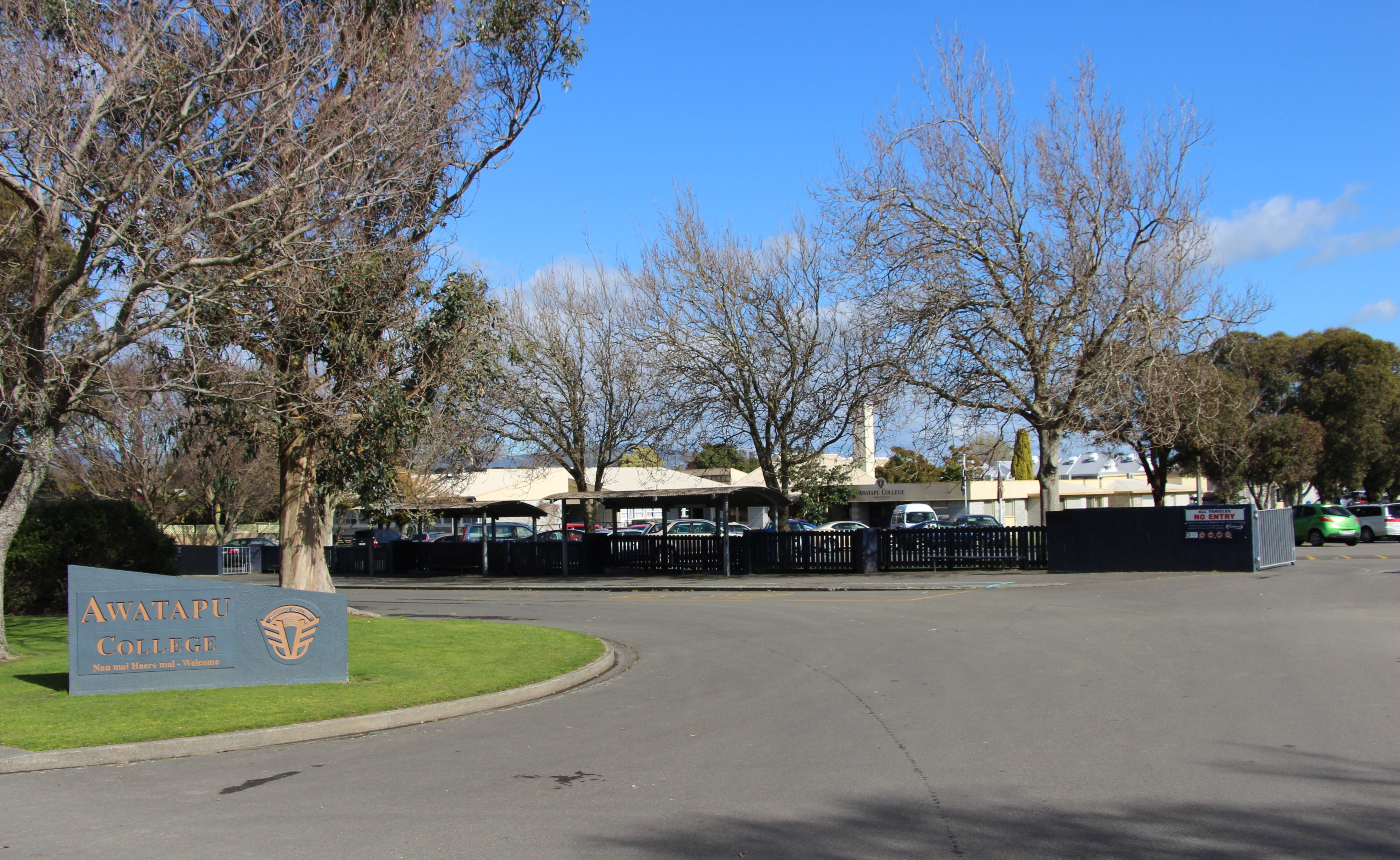 Awatapu College. Palmerston North, New Zaland